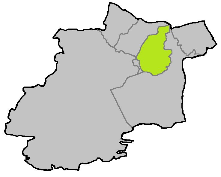 Locator map of Hintergersdorf in Tharandt